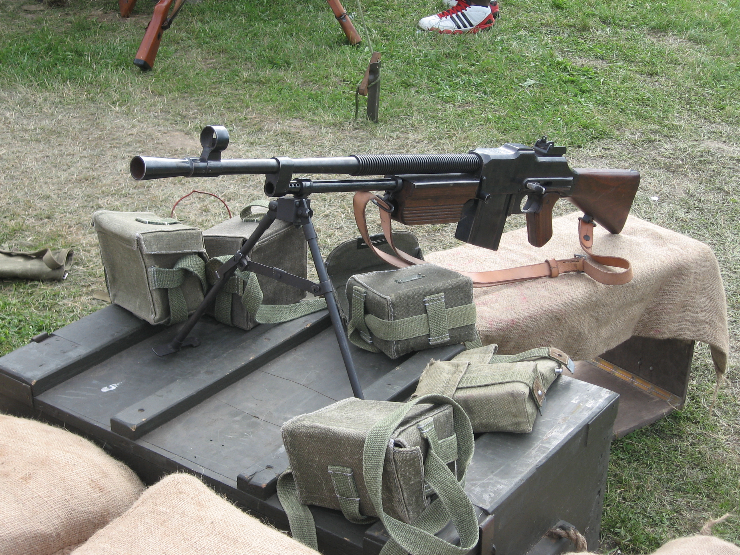 Browning wzór 1928 light machine gun during the VII Aircraft Picnic in Kraków.